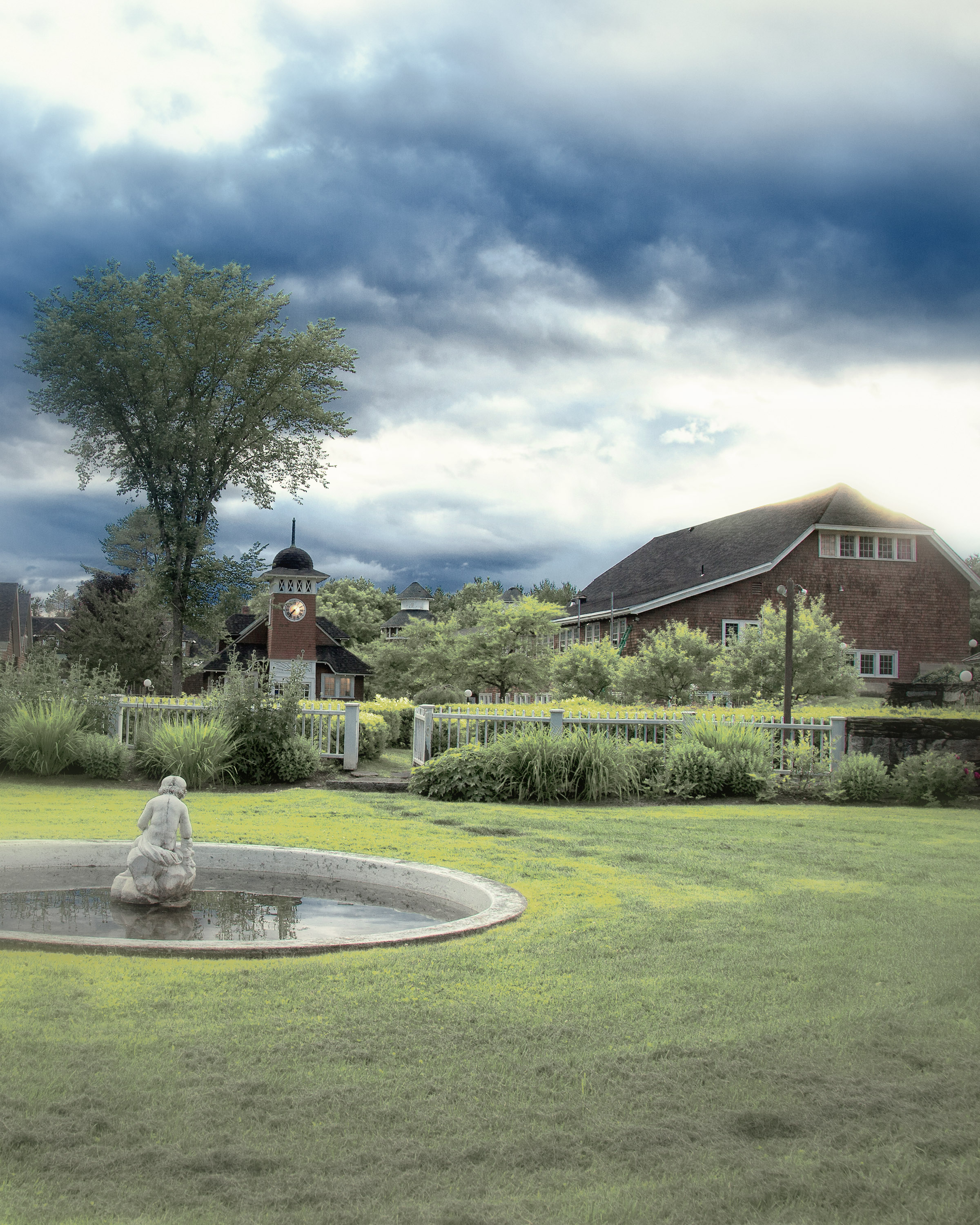 Goddard College's historic Greatwood campus